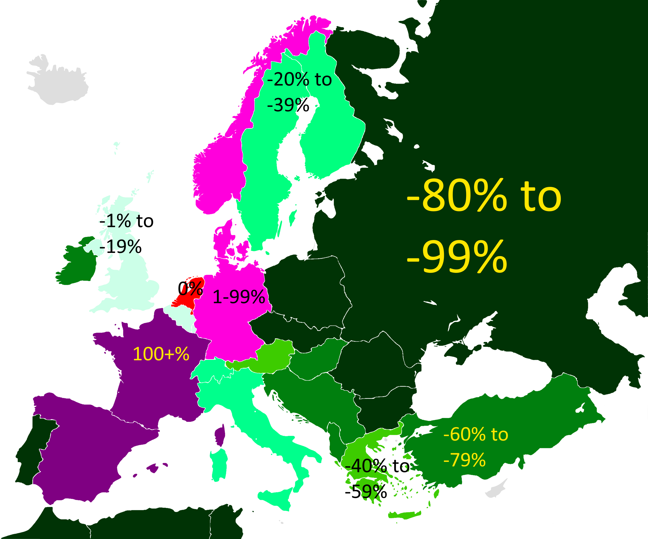 Map of the % change in the Jewish population by each European country between 1945 and 2010 Sources: (for 1945/1946 data) (for Ireland 1945/1946/1950 data) (for 2010 data) Very dark green = Decline of 80-99% between 1945/1946 and 2010 Dark green = Decline of 60-79% Green = Decline of 40-59% Light green = Decline of 20-39% Very light green = Decline of 0-19% Red = No increase or decline in population Light purple = Increase of 1-99% Dark purple = Increase of 100% or more Gray = No data available